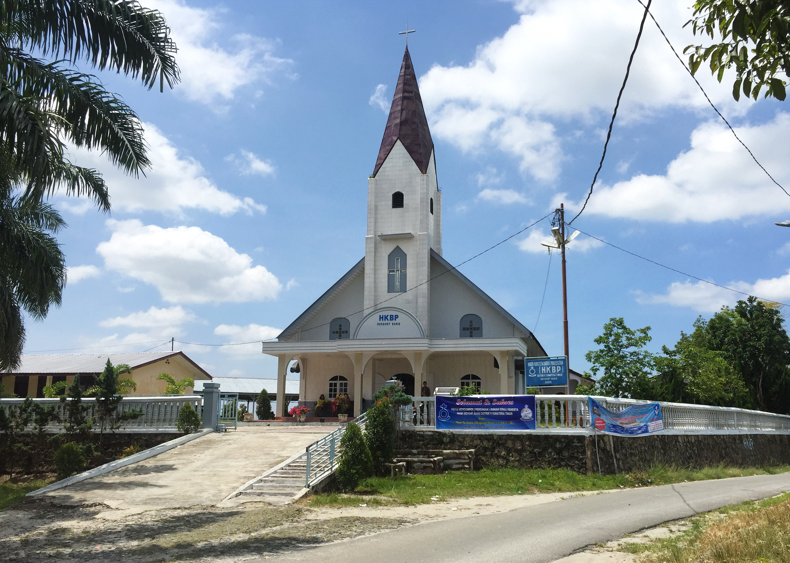 HKBP Baris, Church in Siantar Marihat, Pematangsiantar